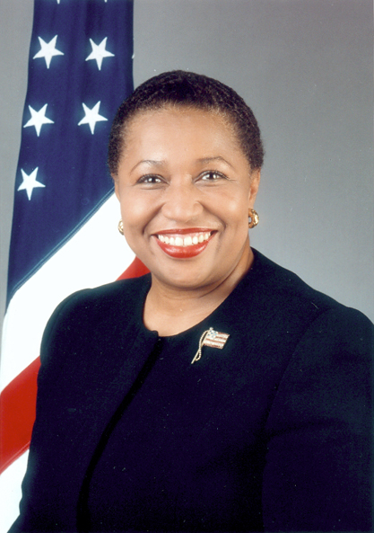 Carol Moseley Braun. Photo taken from the Official U.S. Embassy to New Zealand's former ambassador page